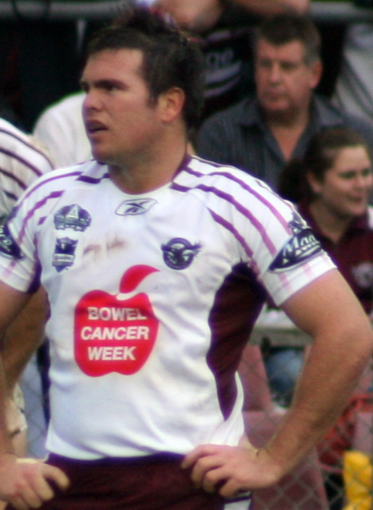 a pic of jamie lyon